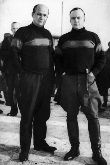 The leaders of the Lapua Movement Vihtori Kosola (on the left) and K.M. Wallenius at the Mäntsälä rebellion camp on March 7th, 1932. The next day the Mäntsälä rebels surrended and the Lapua Movement was banned. Its anti-democratic activities like forcible removals from the country to Russia were continued by right wing radical movement IKL.